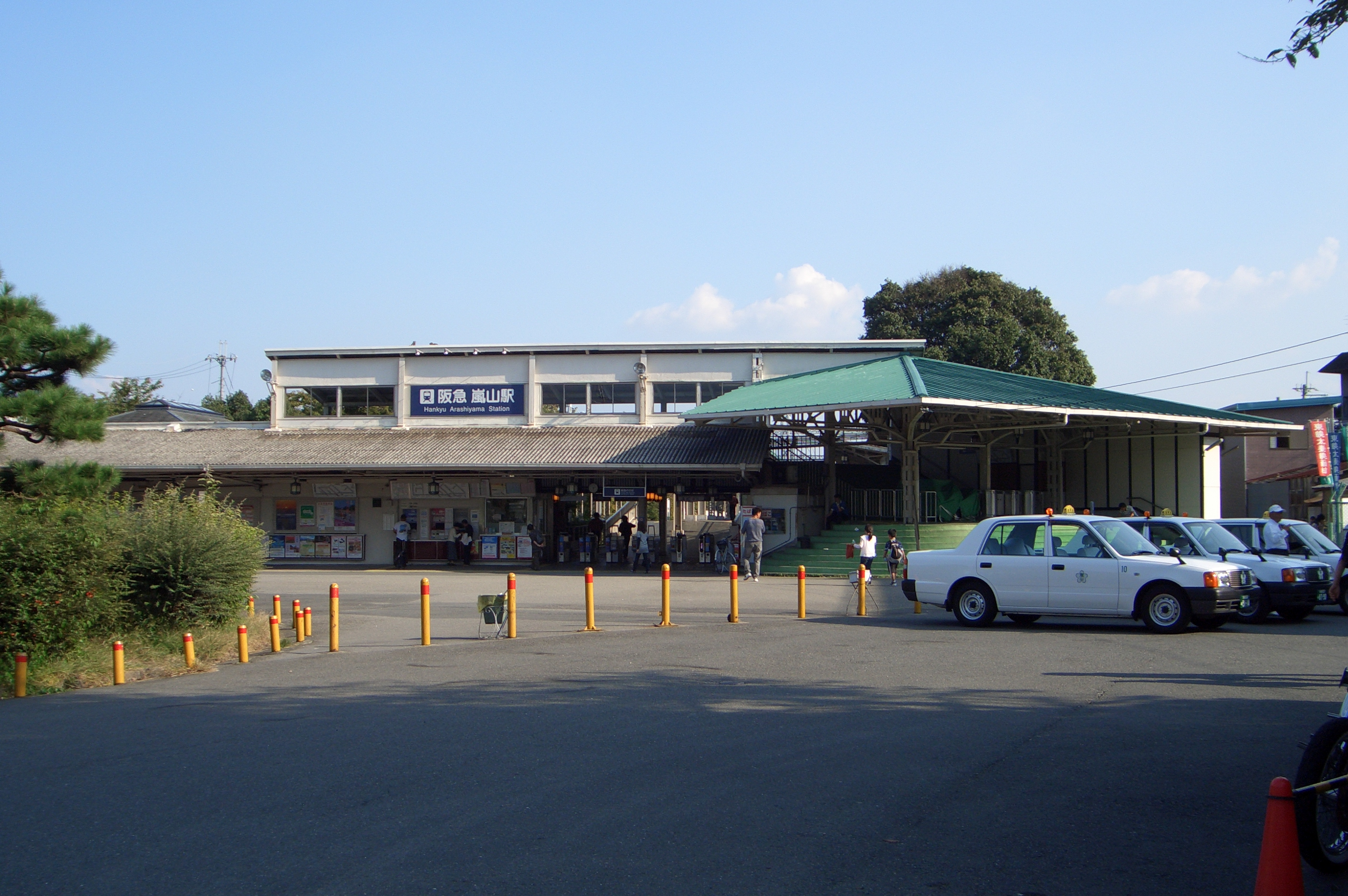 Hankyu Railway, Arashiyama Line, Arashiyama Station.